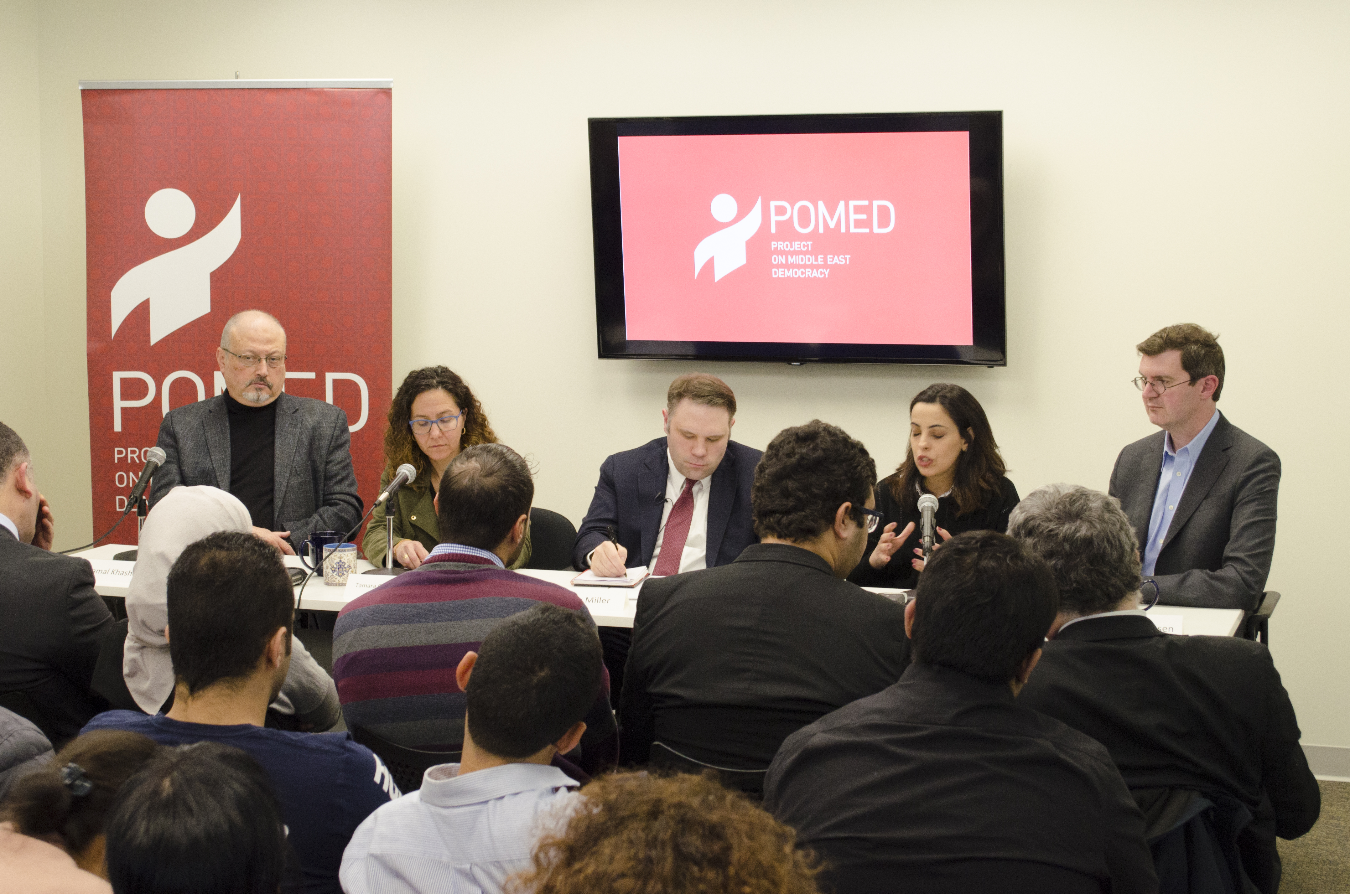 Mohammed bin Salman's Saudi Arabia: A Deeper Look Saudi journalist, Global Opinions columnist for the Washington Post, and former editor-in-chief of Al-Arab News Channel Jamal Khashoggi offers remarks during POMED's "Mohammed bin Salman's Saudi Arabia: A Deeper Look." Jamal Khashoggi Saudi journalist; Global Opinions columnist, Washington Post; Former editor-in-chief Al-Arab News Channel Tamara Cofman Wittes Senior Fellow, Center for Middle East Policy, Brookings Institution Andrew Miller (Moderator) Deputy Director for Policy, POMED; Former White House and State Department Middle East Official Hala Aldosari Scholar-activist from Saudi Arabia; Fellow, Radcliffe Institute for Advanced Study at Harvard University Kristian Ulrichsen Middle East Fellow, Rice University's Baker Institute for Public Policy; Associate Fellow, Chatham House March 21, 2018 Project on Middle East Democracy Washington, DC